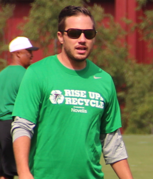 Atlanta Falcons training camp August 2015